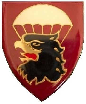 SANDF 44 Para regiment emblem